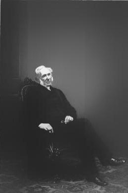 Portrait of Charles Smith Bird (1795–1862), English clergyman.